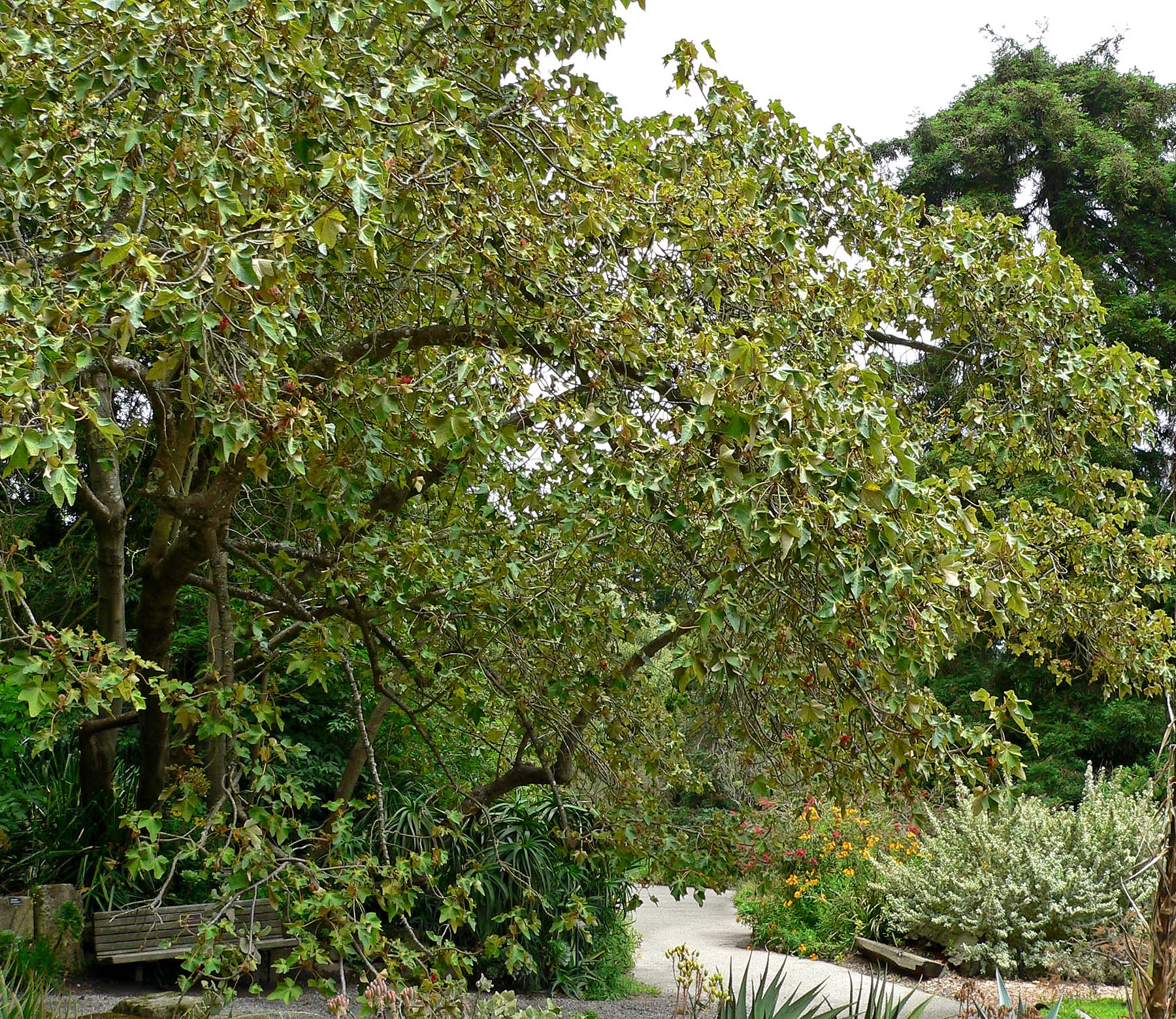 Photo of Chiranthodendron pentadactylon (Mexican hand tree) at the San Francisco Botanical Garden